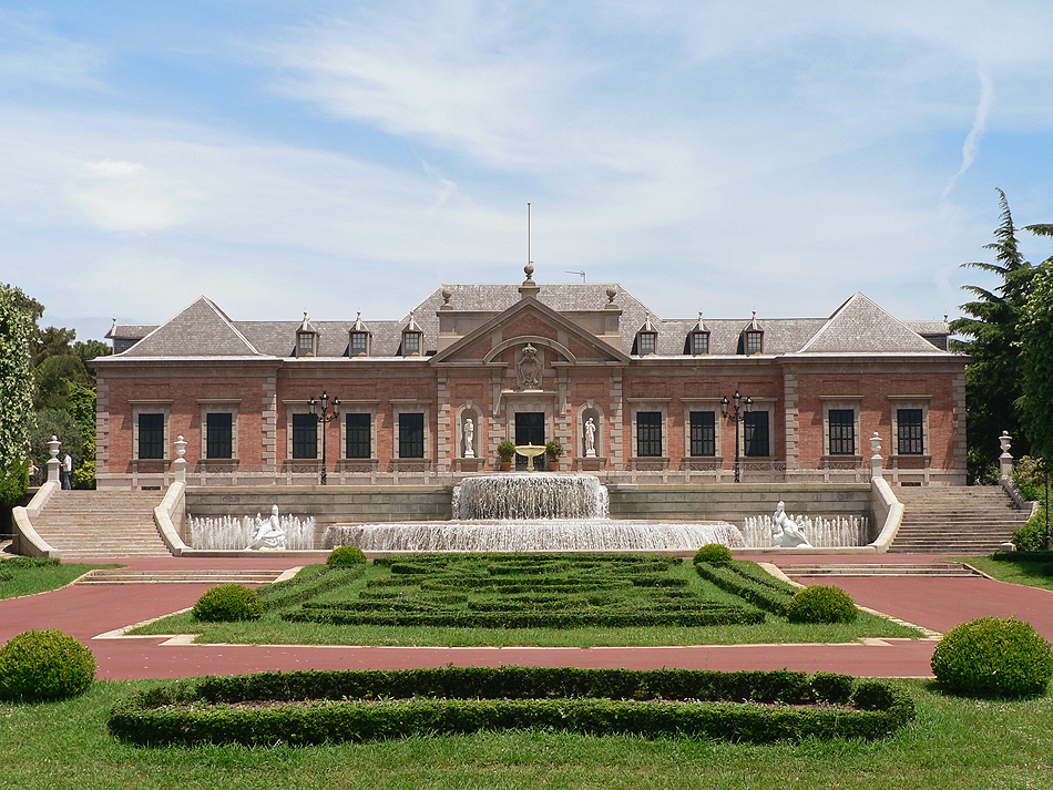 Albeniz Palace, in Barcelona (Catalonia, Spain).